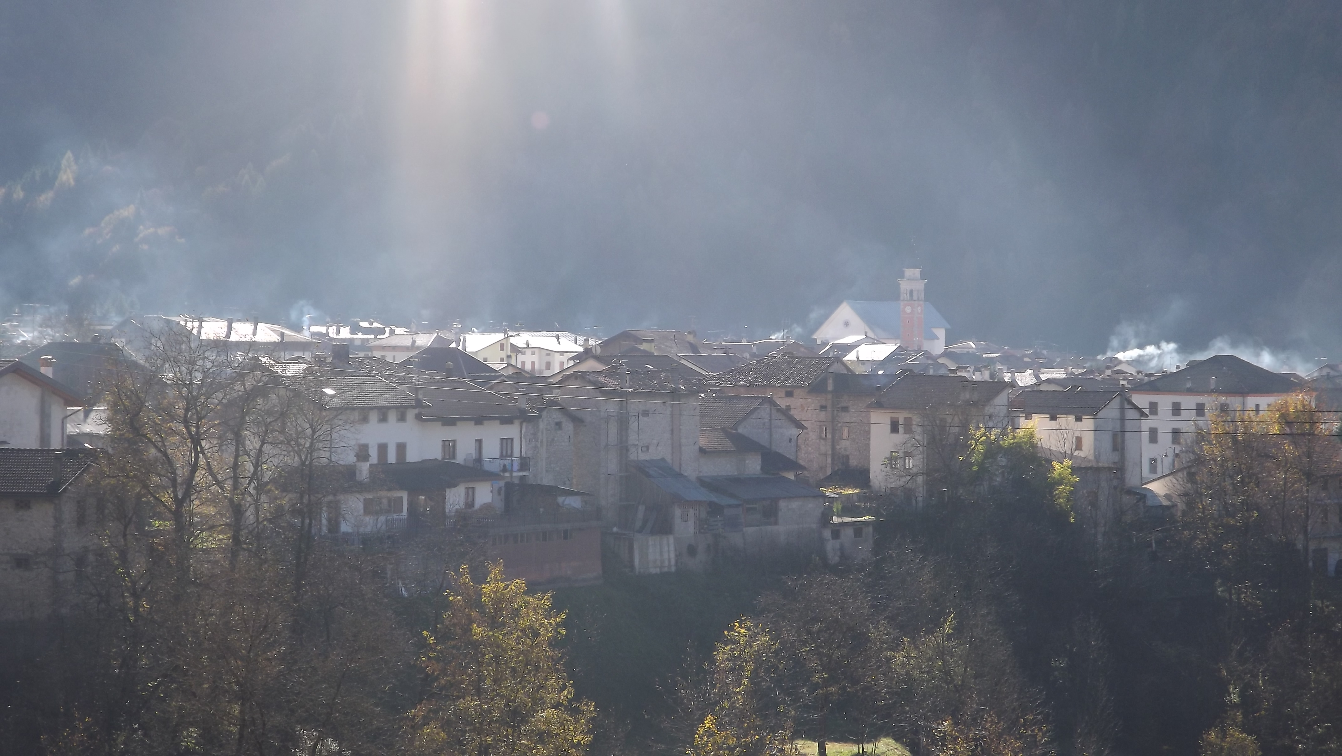 View of the small mountain village Claut from the bridge over "Ciafùrle" creek